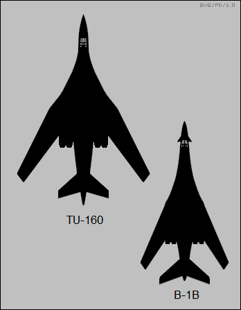 Plan-view silhouettes of the Tupolev Tu-160 and Rockwell B-1 Lancer